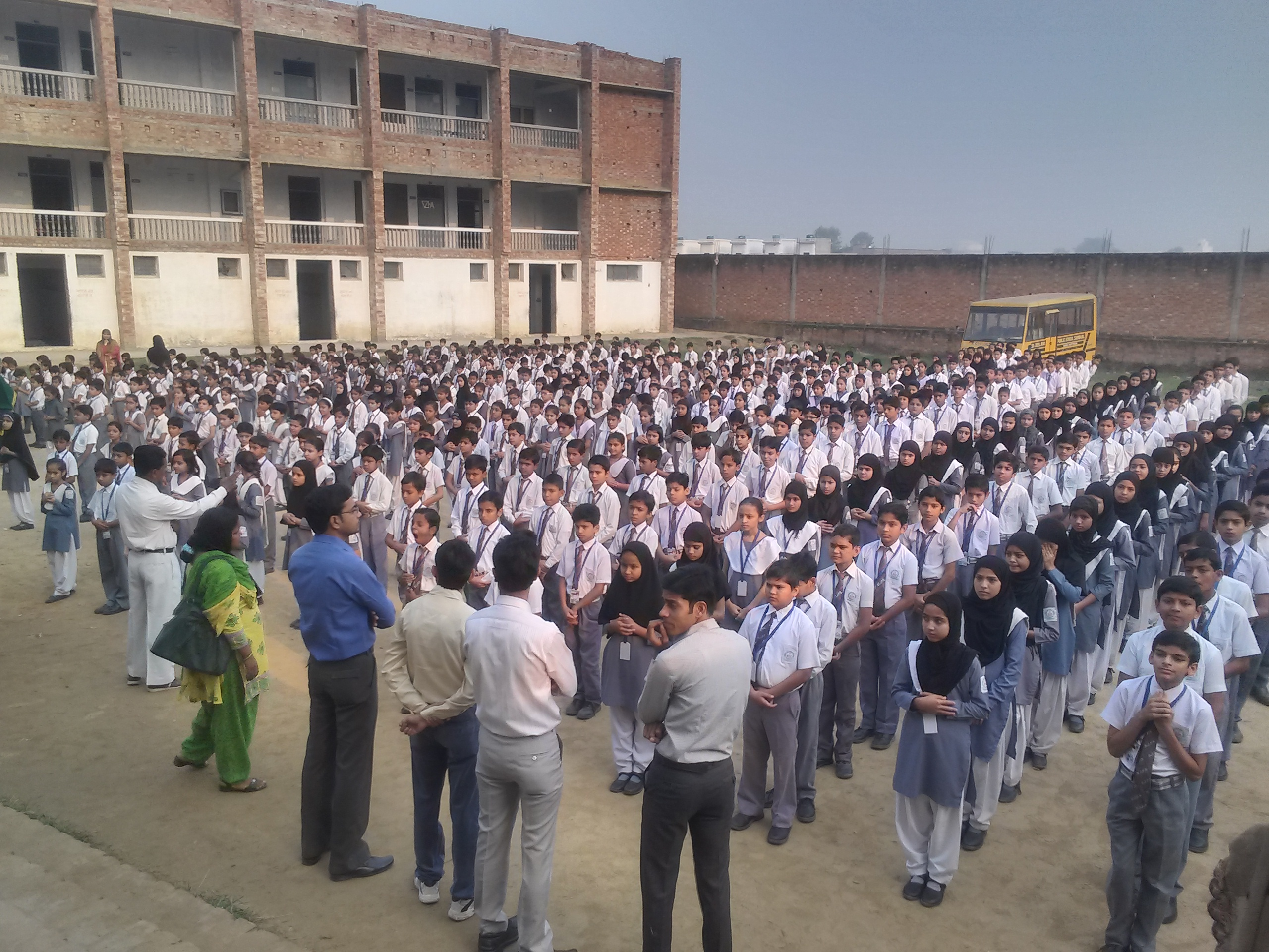 Assembly